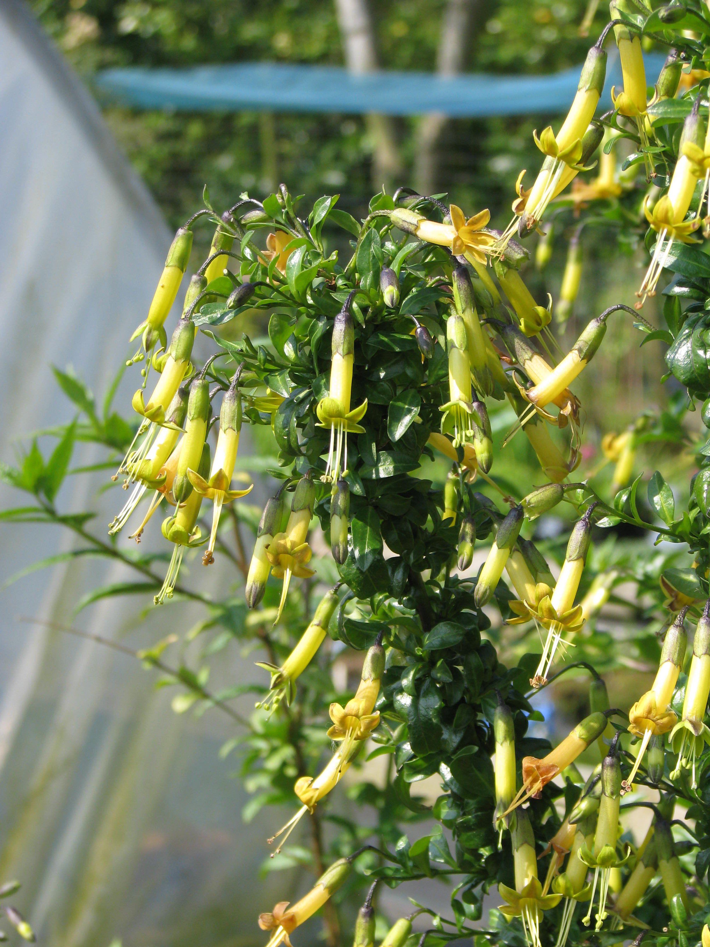 Fully open - the petals reflex back along the tube